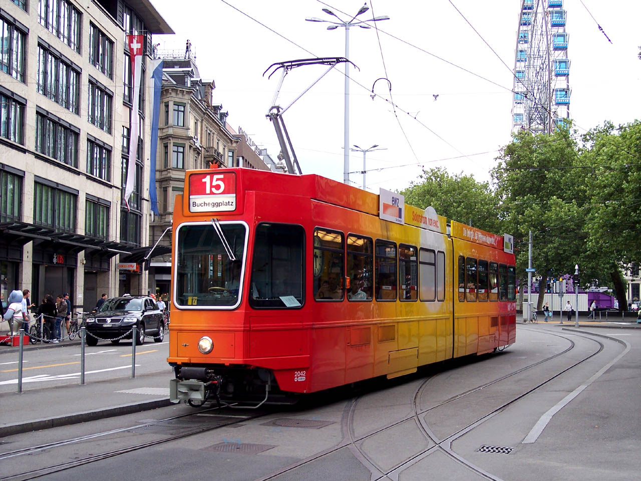 Trams in Zürich: With one of the rare overall adverts on Zürich trams, this Be 4/6 "Tram 2000" advertised the city's energy supplier.